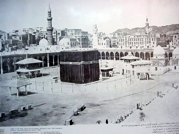 Historical picture of Kaa'ba taken in 1880